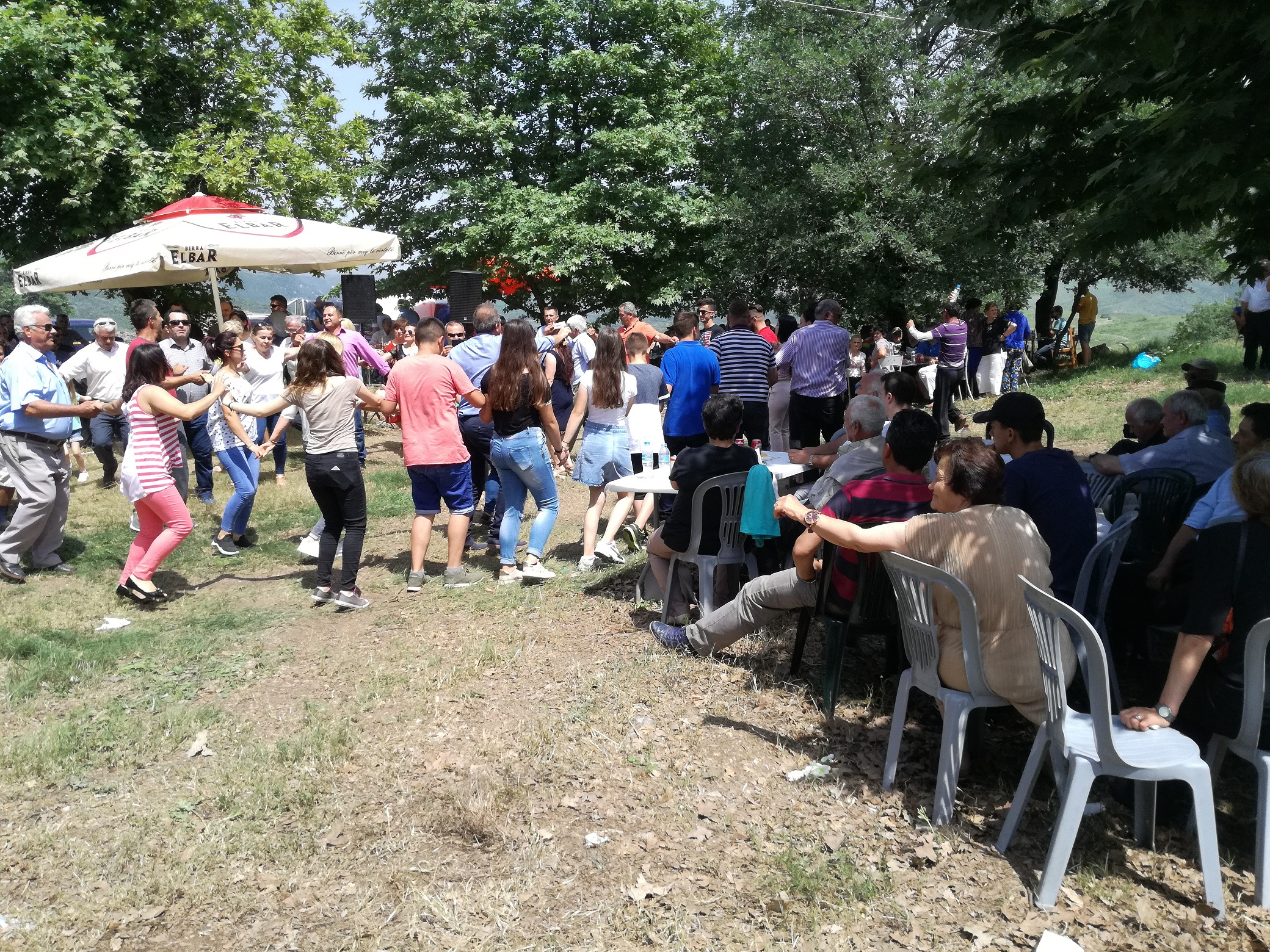 The community celebration at Mesopotam Monastery on 20th May 2018